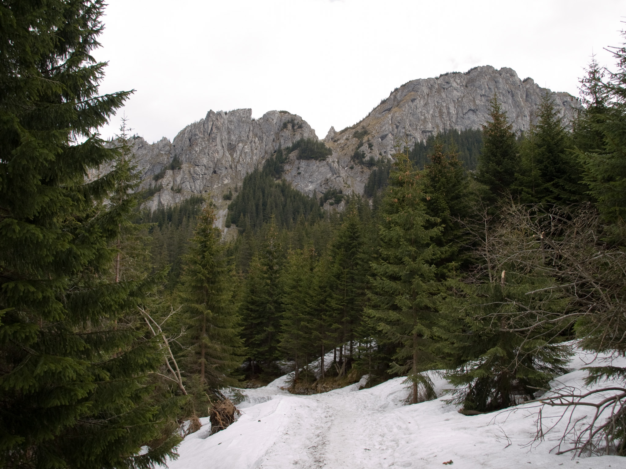 Dolina Kasprowa, the walls of Zawrat Kasprowy